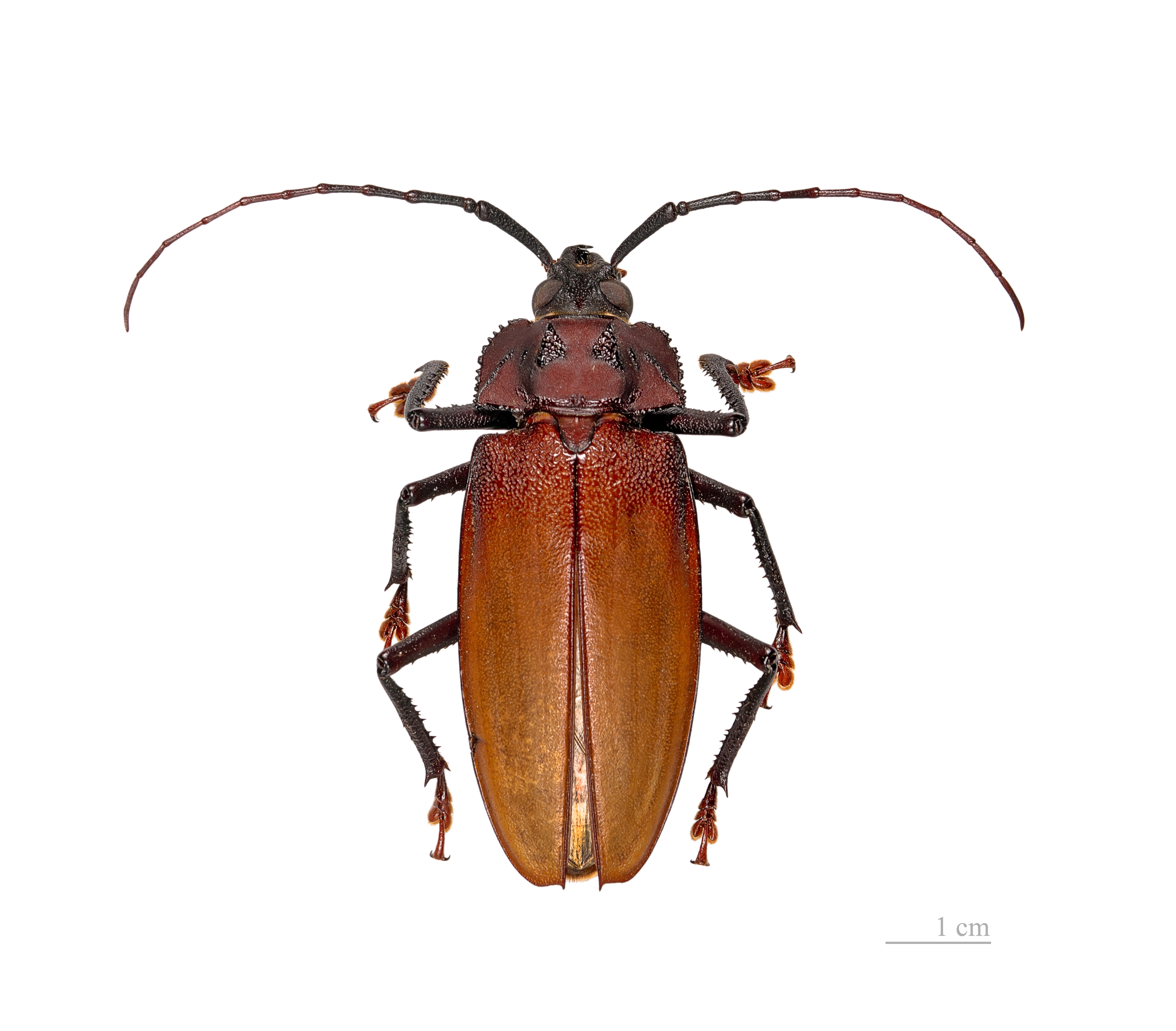 ♂ - Dorsal side Locality : Cacao, Crique Baguot, French Guiana.